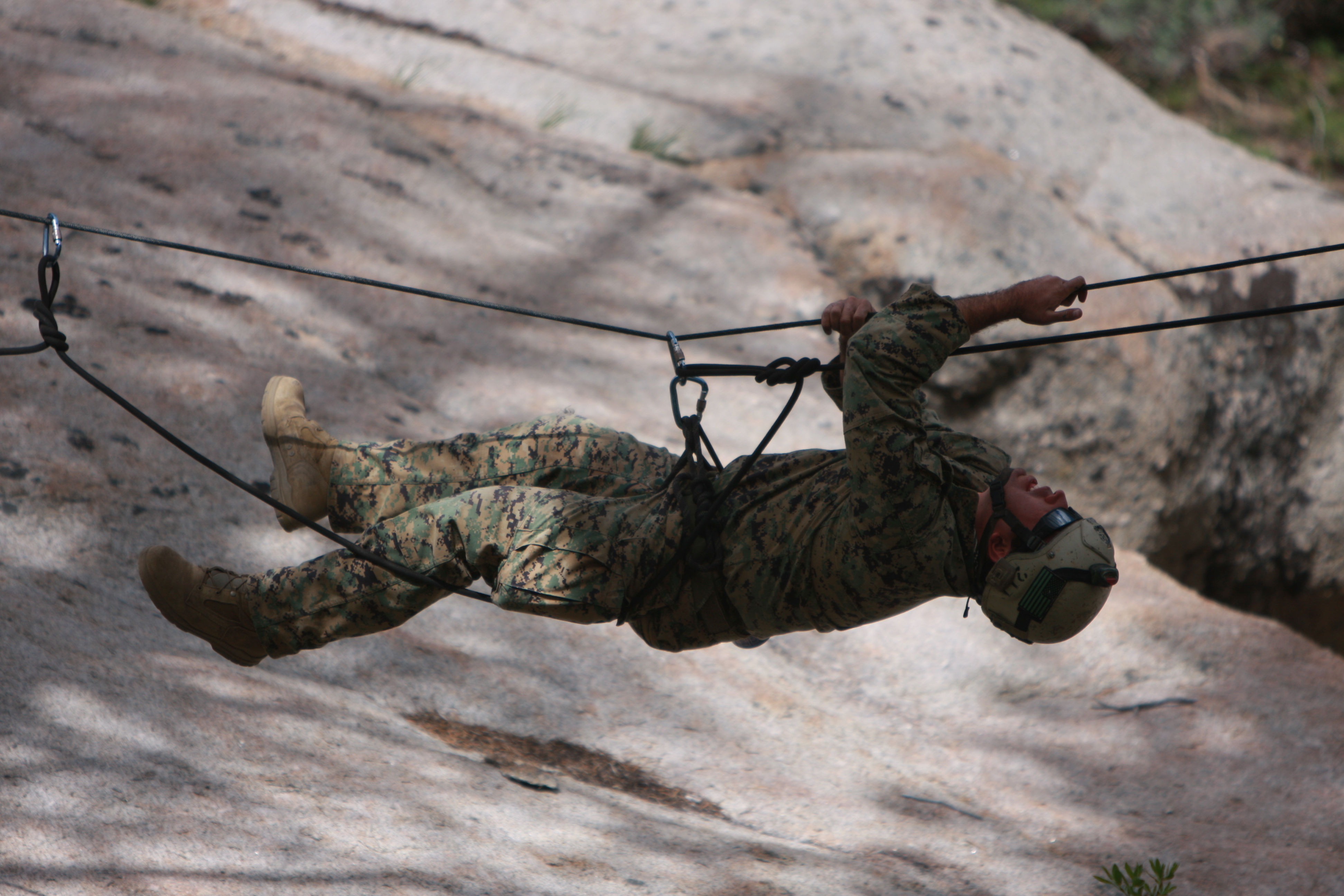 Petty Officer 2nd Class Alfredo Medina, a corpsman with 1st Marine Special Operations Battalion, based out of Marine Corps Base Camp Pendleton, Calif., crosses a river at Mountain Warfare Training Center Bridgeport, Calif., Monday.